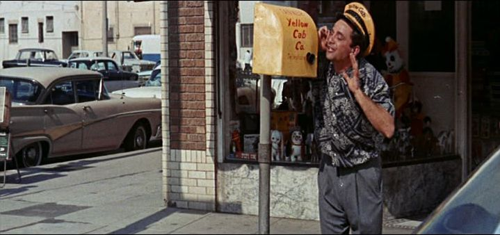 Peter Falk in It's a Mad, Mad, Mad, Mad World (1963)